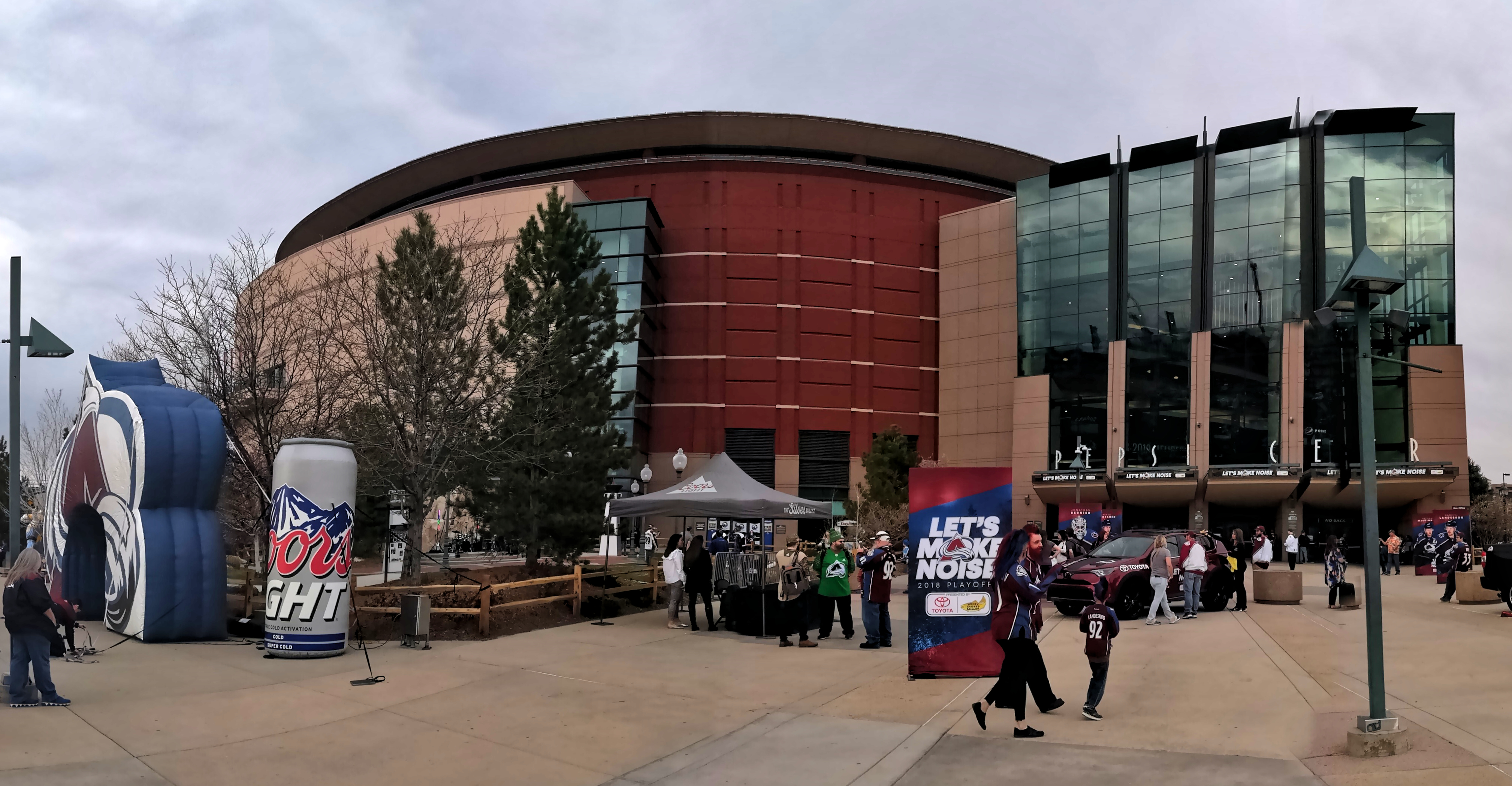 Denver Pepsi Center